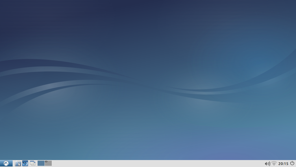 Lubuntu 12.10 Desktop Theme